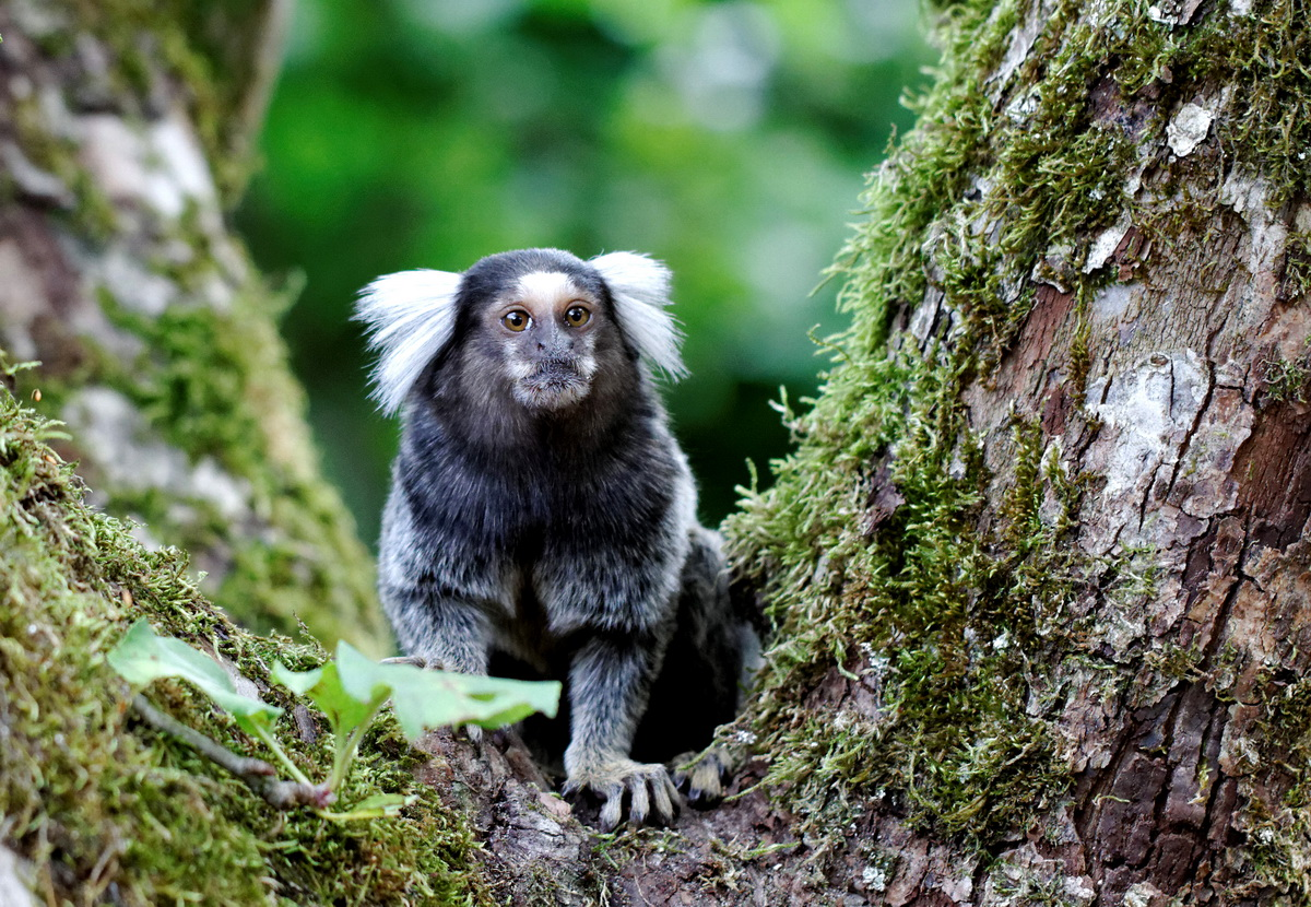 Common marmoset in the Vogelpark Heiligenkirchen